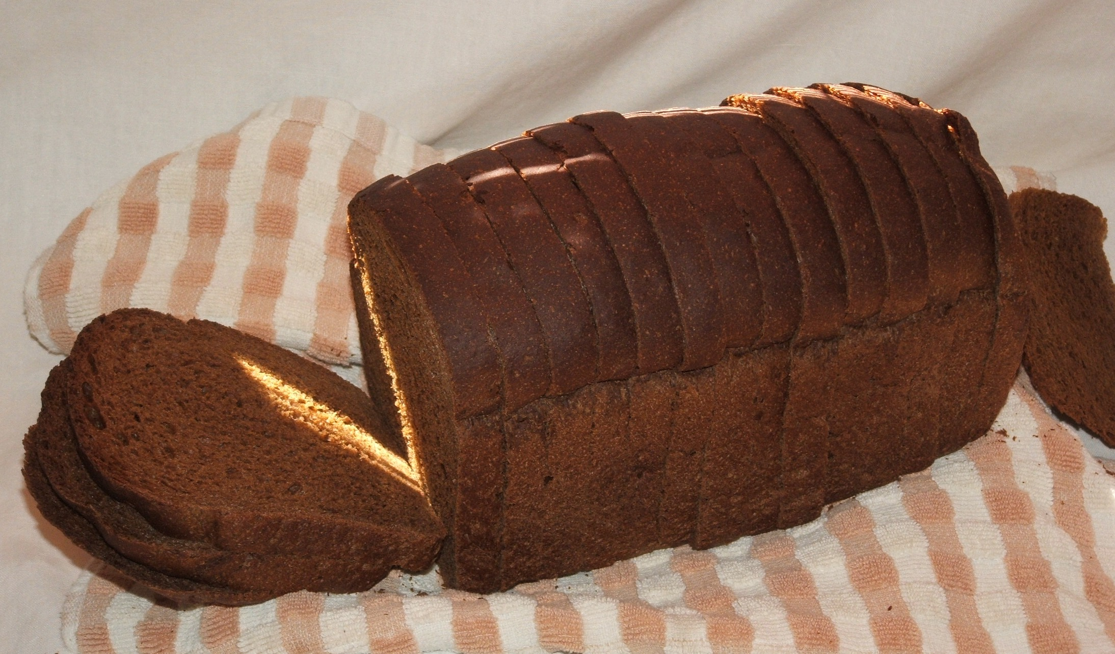 Loaf of dark rye bread